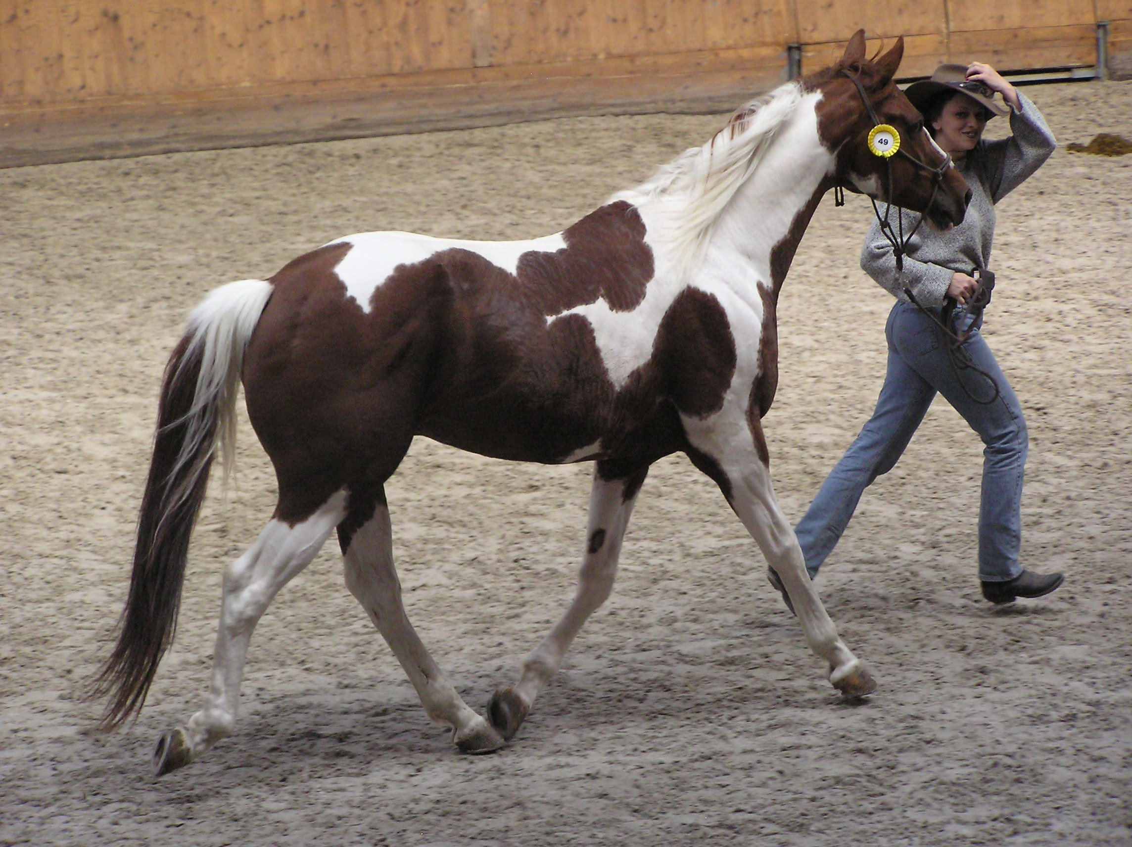 American Paint Horse, horse show, Císařský ostrov, Prague, Czech Republic